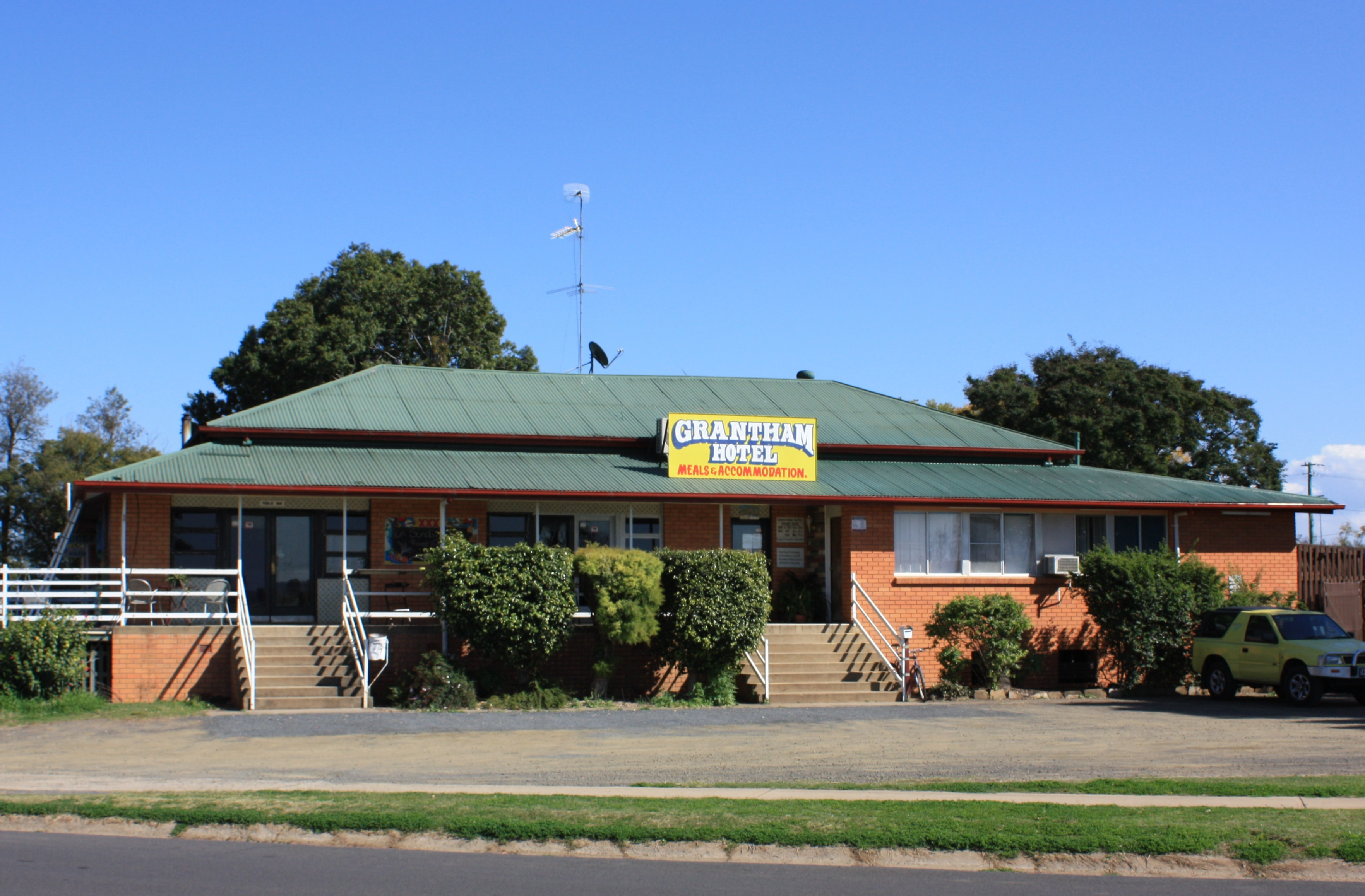 Grantham Hotel located in Anzac Ave, Grantham. People took refuge on the roof of this hotel on Monday 10th January 2011, when a wall of water swept down the Toowoomba Range, devastating the small town. Several people were swept away and drowned, and some are still missing.